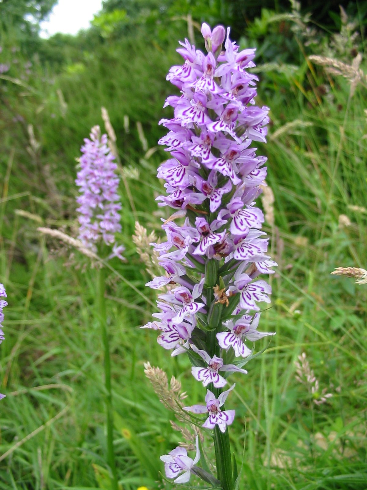 Unidentified Dactylorhiza at Nob End, Bolton, UK. Taken by Geotek 2005